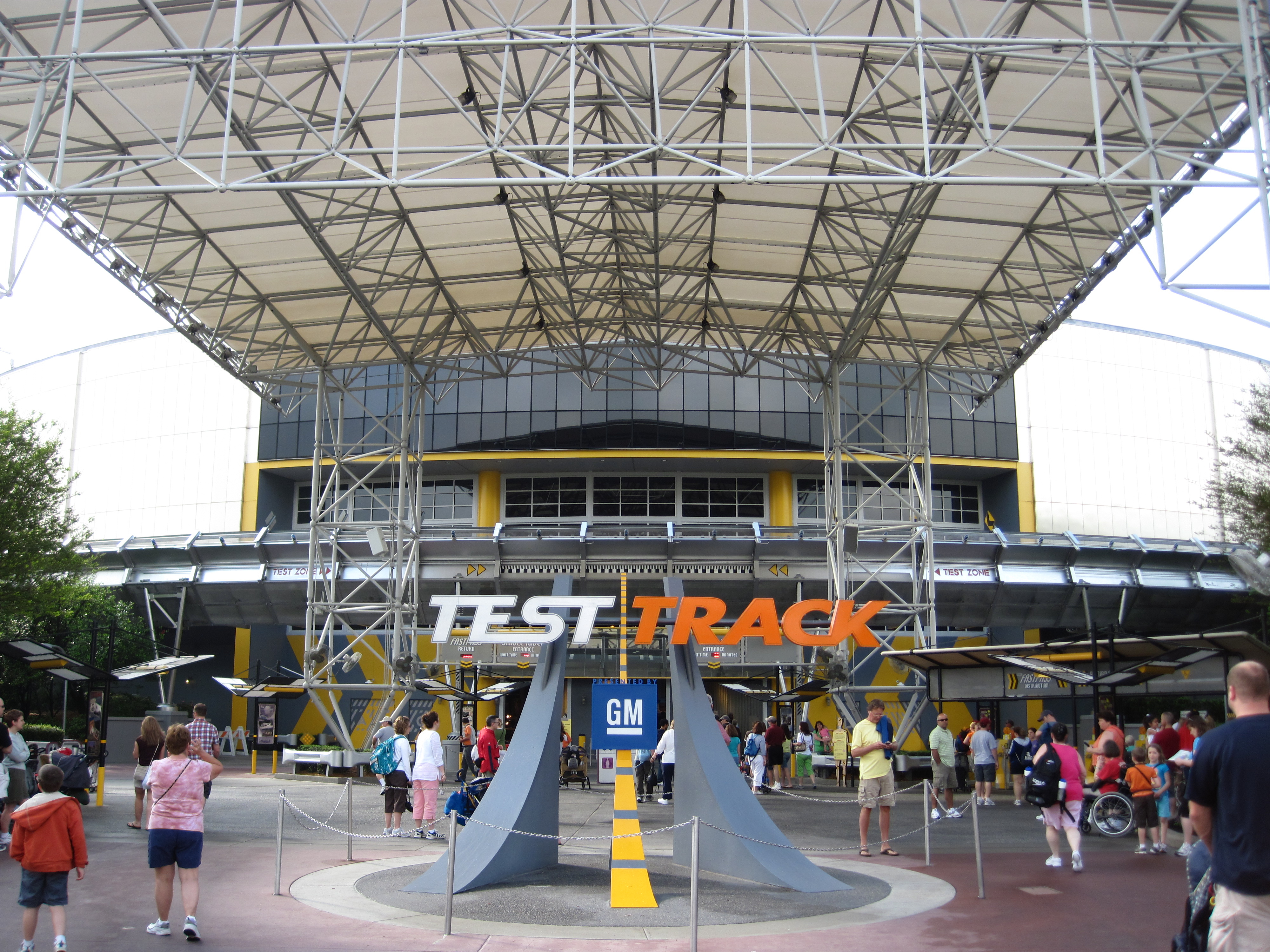 Test Track's entrance at Epcot in the Walt Disney World Resort.